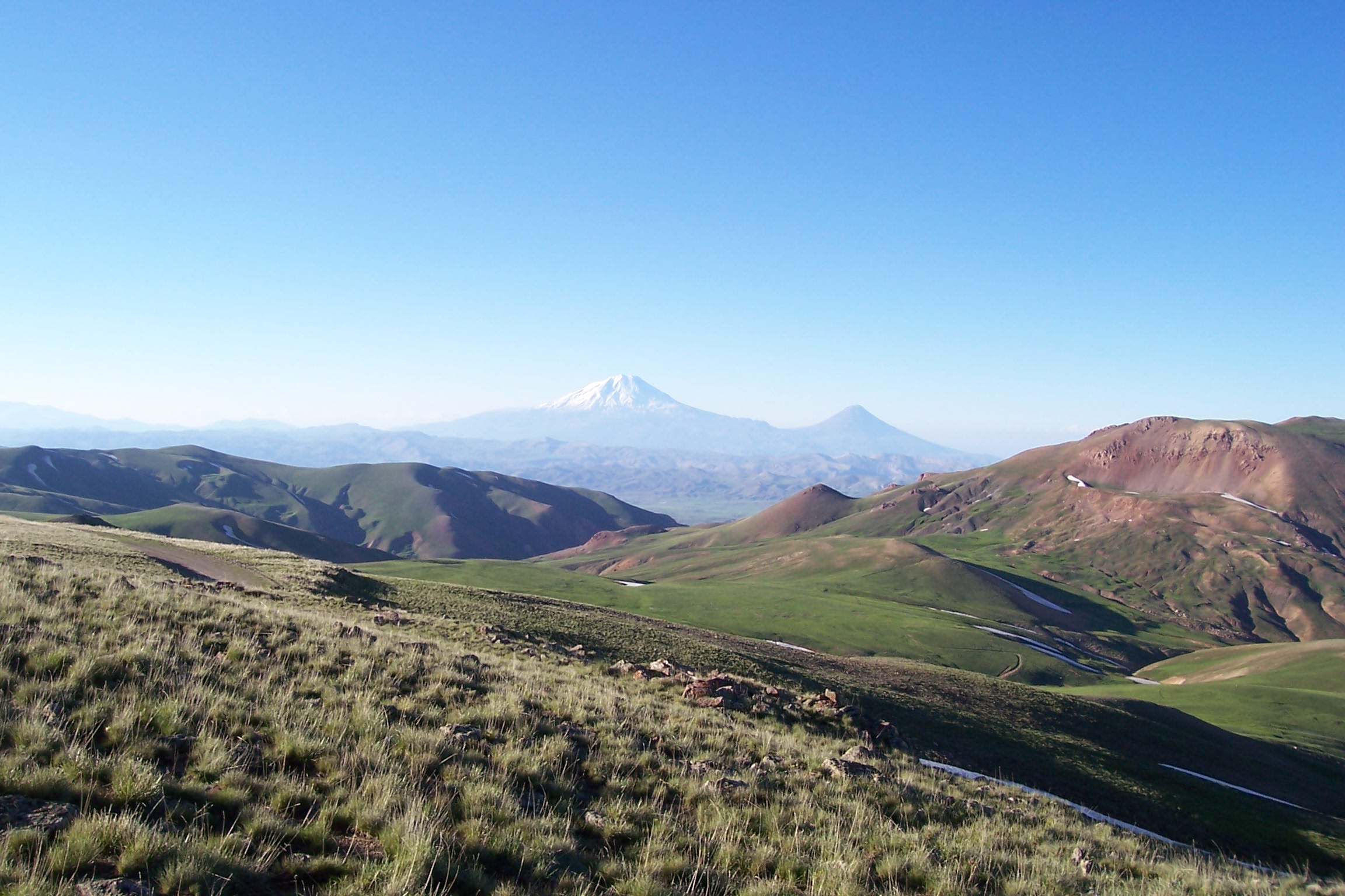 A view of the mountains in the Armenian plateau at the Turkey-Iran border. In the center background is Mount Ararat.